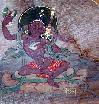 Details from a tankha of Khyungpo Naljor, Eastern Tibet, circa 1900, courtesy of Buddhist Artefacts / Parkham Place Gallery, Sydney, Australia